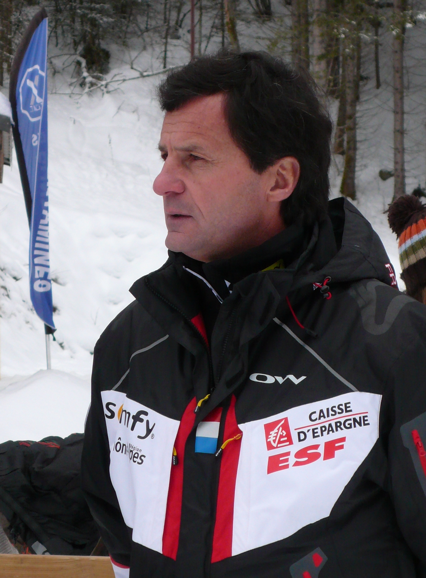 Michel Vion, as President of the French Ski Association, during a national race of Biathlon in Les Contamines-Montjoie.